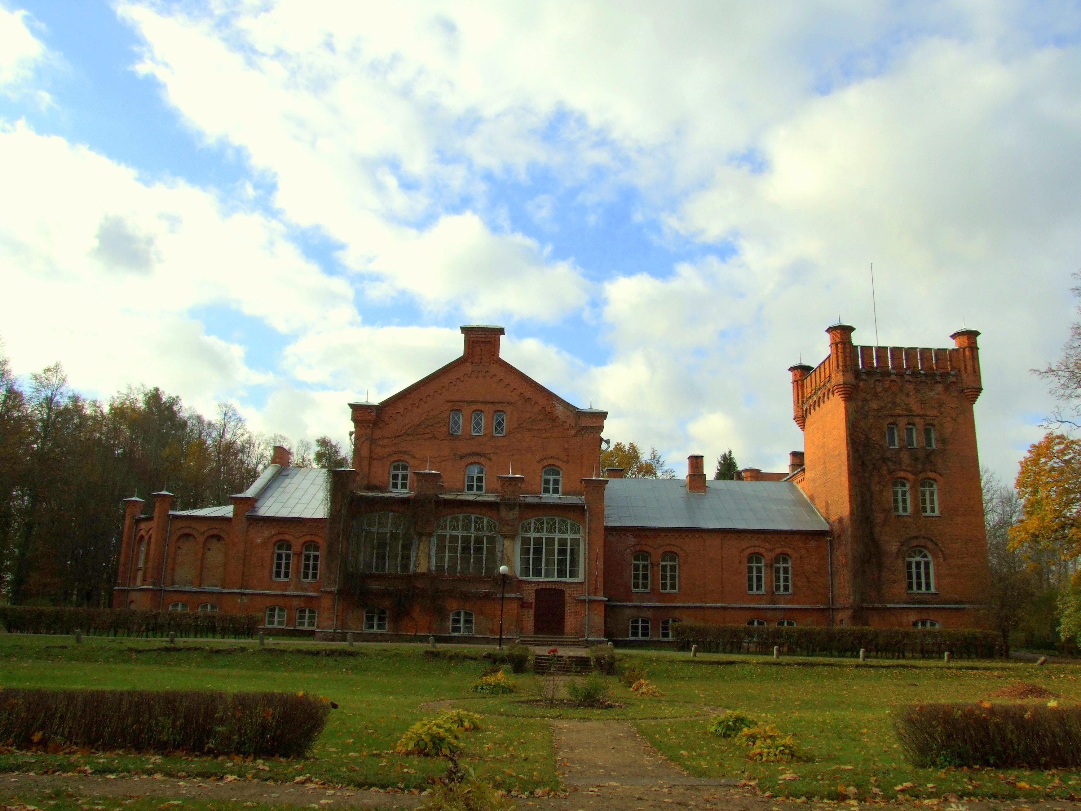 Puikule ManorLatviešu: Puikules muižas pils